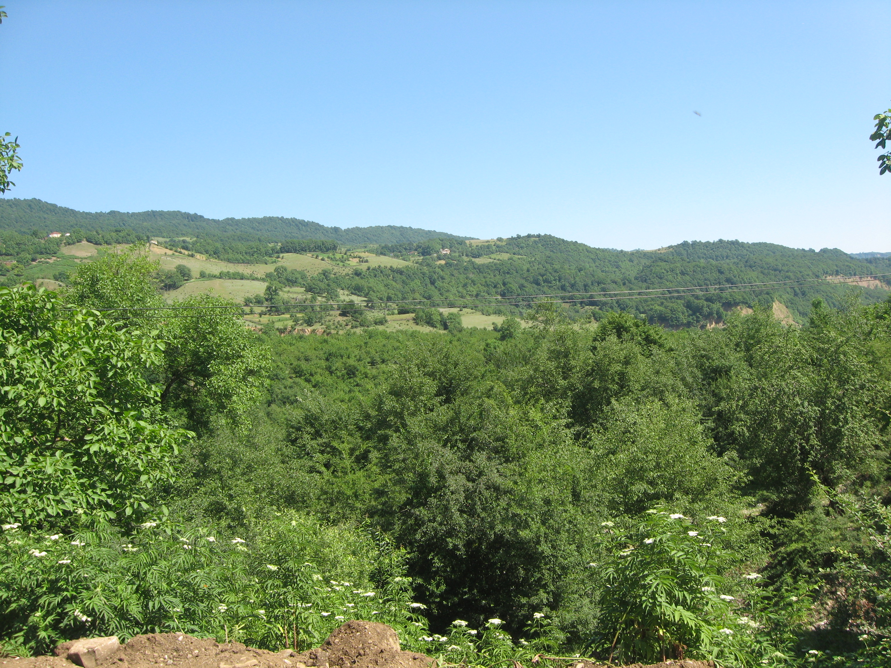 Azerbaijan, Quba